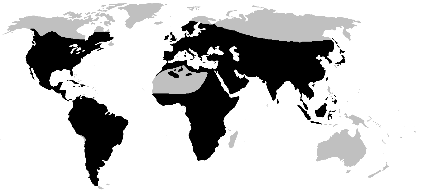 Distribution of Bufonidae.